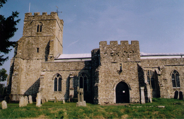 St George, Ivychurch Erected in the 13th century.